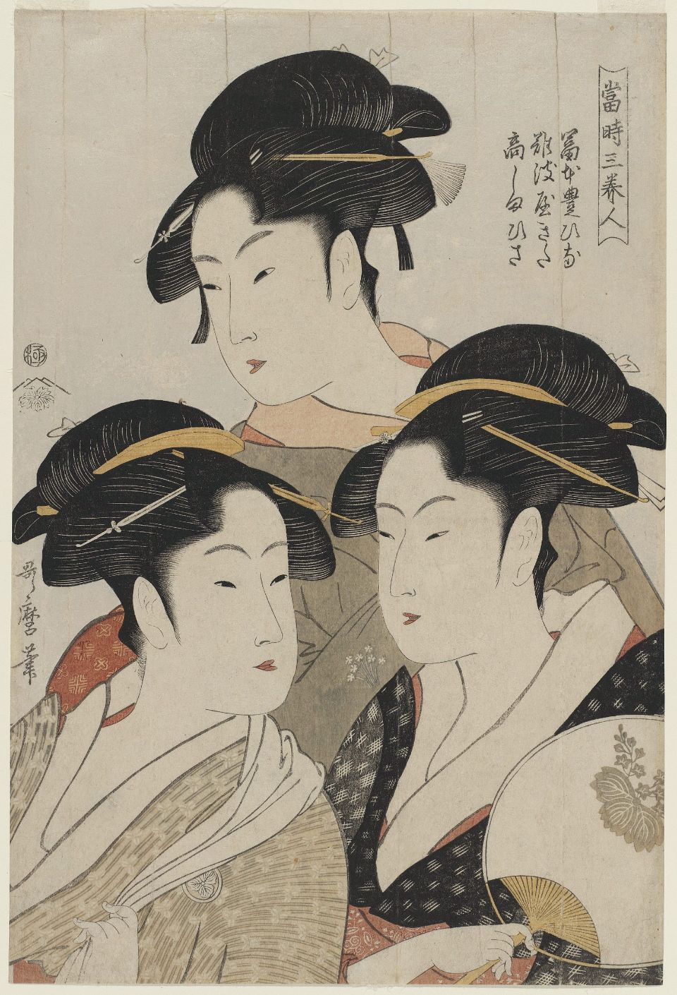 A depiction of three celebrity beauties of the 1790s Japan by Japanese ukiyo-e artist Kitagawa Utamaro.